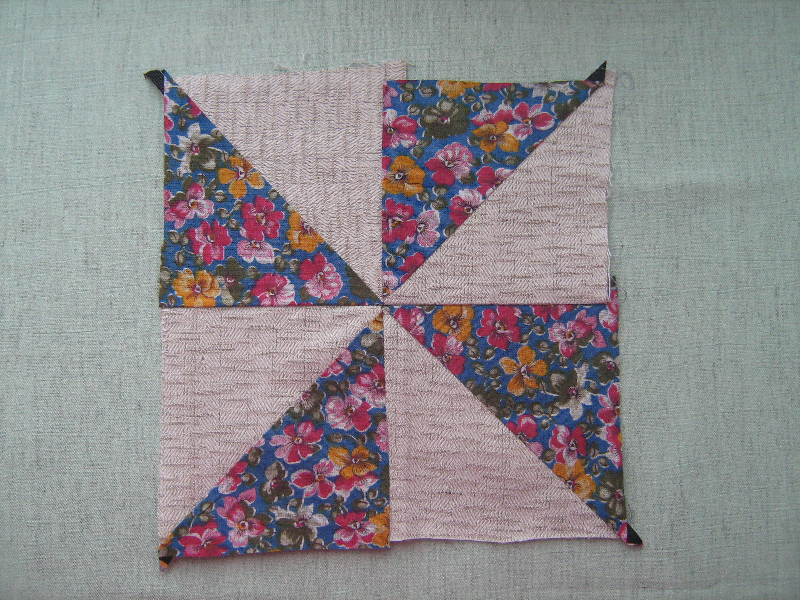 The block of patchwork. A pattern "Mill"